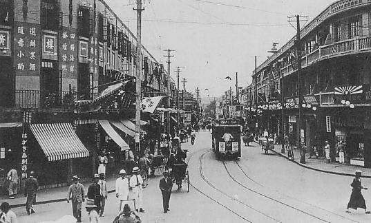 Hongkou Japantown